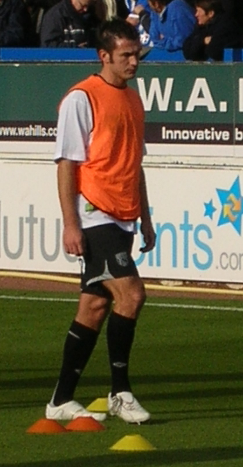 Carl Hoefkens of West Bromwich Albion, warming up at Layer Road, Colchester on 2007-10-20